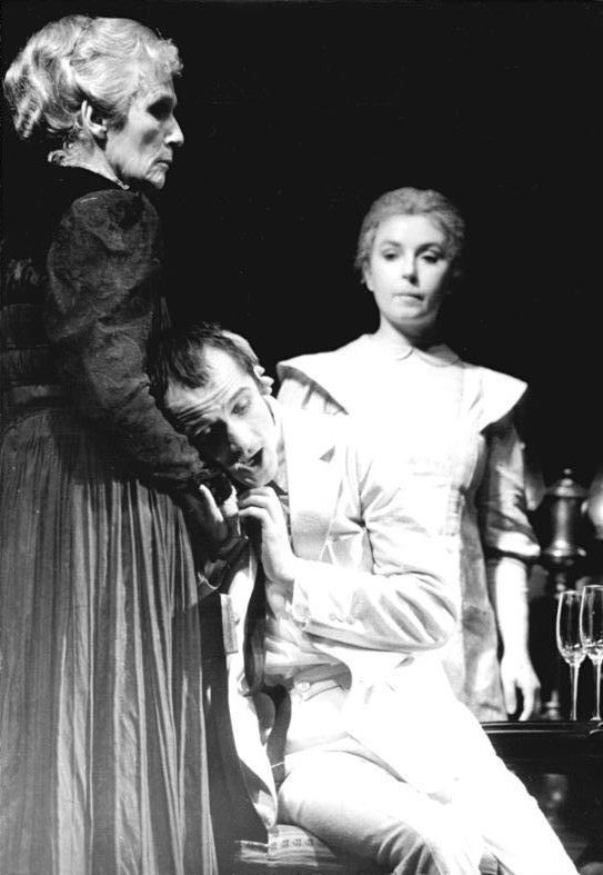 ADN-Zentralbild (Image Centre) – Reiche – 18 November 1983 – Berlin: The premiere of Ghosts by Henrik Ibsen on 18 November 1983 in the reopened Kammerspiele (Chamber Play Theatre). Under the direction of Thomas Langhoff, Inge Keller (left) played Mrs. Alving, Ulrich Mühe (middle) her son Osvald, and Simone von Zglinicki the maid Regine Engstrand (right). The Norwegian family drama is one of the scandal-ridden pieces of the 19th century; when it was released it caused a storm of indignation, and it was only successful on the Berlin stage. Factual corrections and alternative descriptions are encouraged separately from the original description. Additionally errors can be reported at this page to inform the Bundesarchiv. Original historic description: ADN-ZB-Reiche-18.11.83-schl-Berlin: "Gespenster" von Henrik Ibsen erlebt am 18.11.83 in den wiedereröffneten Kammerspielen seine Premiere. Unter der Regie von Thomas Langhoff spielen Inge Keller (l.) die Frau Alving, Ulrich Mühe (M.) den Sohn Osvald und Simone v. Zelinicki das Dienstmädchen Regine Engstrand (r.). Das norwegische Familiendrama ist eines der skandalumwitterten Stücke des 19. Jahrjunderts, das bei seinem Erscheinen einen Sturm der Entrüstung auslöste und erst an Berliner Bühnen erfolgreich wurde.